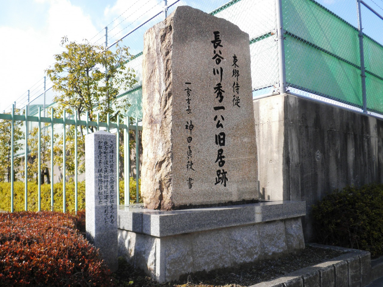 Site of Hasegawa Hidekazu's residence in Ichinomiya, Aichi.